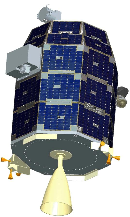 Figure 1. A preliminary drawing of the LADEE spacecraft. Basic structure is an octagon with body-mounted solar panels. The spacecraft is 198 cm high, 117.1 cm wide corner-to-corner, and 108.2 cm wide face-to-face. The structure is divided into four “modules”, each of which is 35.3 cm high. The top module has canted sides. The propulsion system is carried in the bottom two “extension modules”. Taken from "Statement of Work - LADEE Spacecraft Propulsion System"